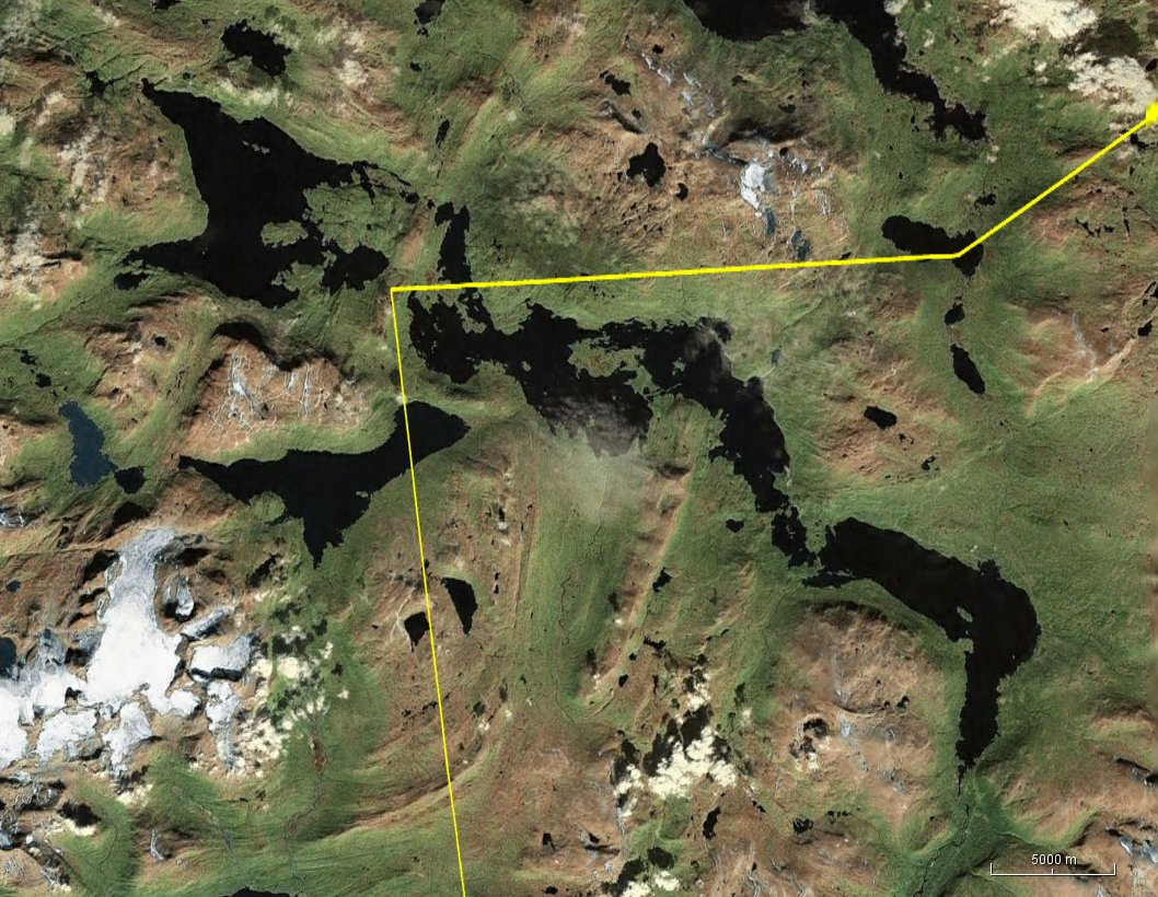 The Norwegian/Swedish lake Överuman (the yellow line is the border)